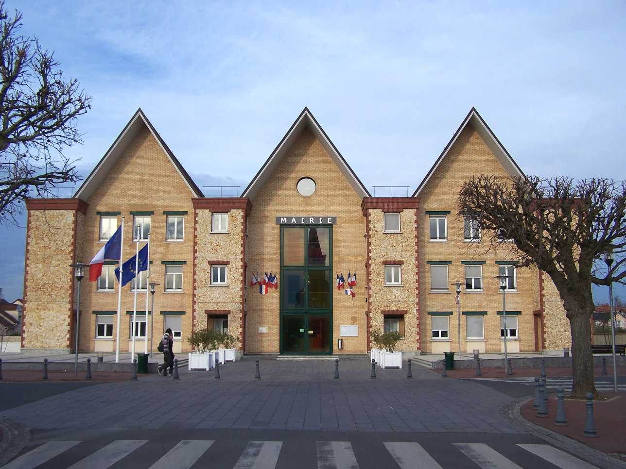 Town hall of Croissy-sur-Seine (Yvelines, France)